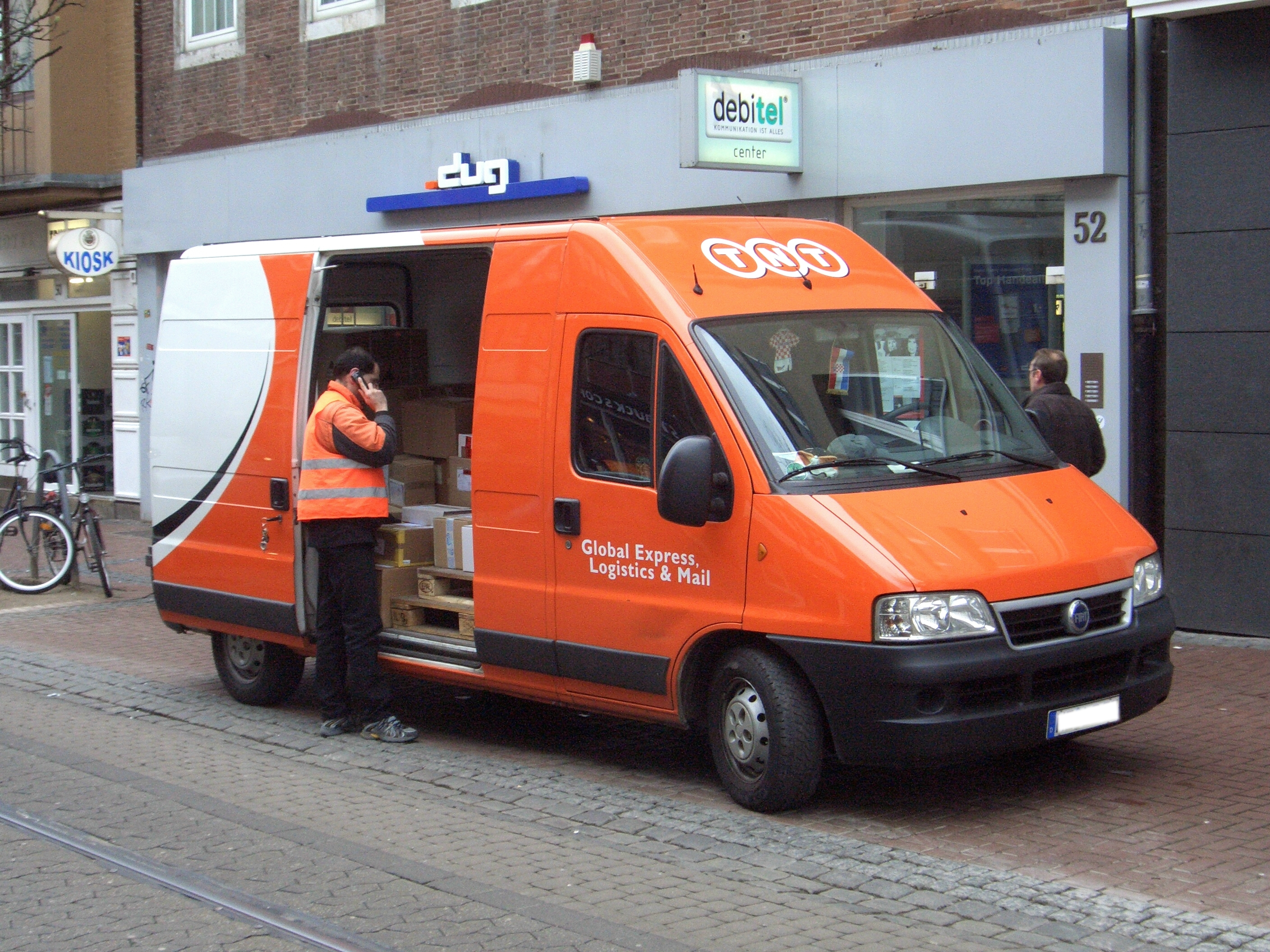 Fiat Ducato Series II Type 244, 2004-2006, delivery Vehicle of TNT Global Express